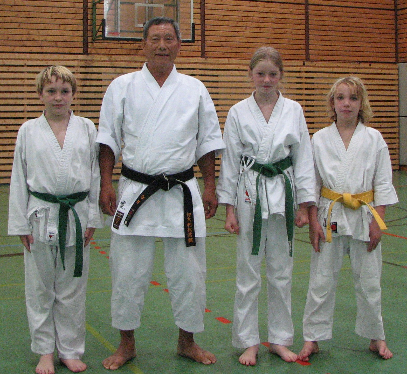 Hiroshi Shirai and some young students, at a stage in Innsbruck